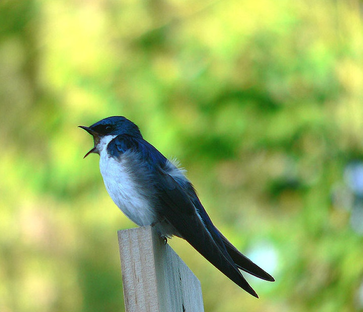 A photo I took in my backyard of a male Tree Swallow, circa 2005. More of my photos can be found on my website